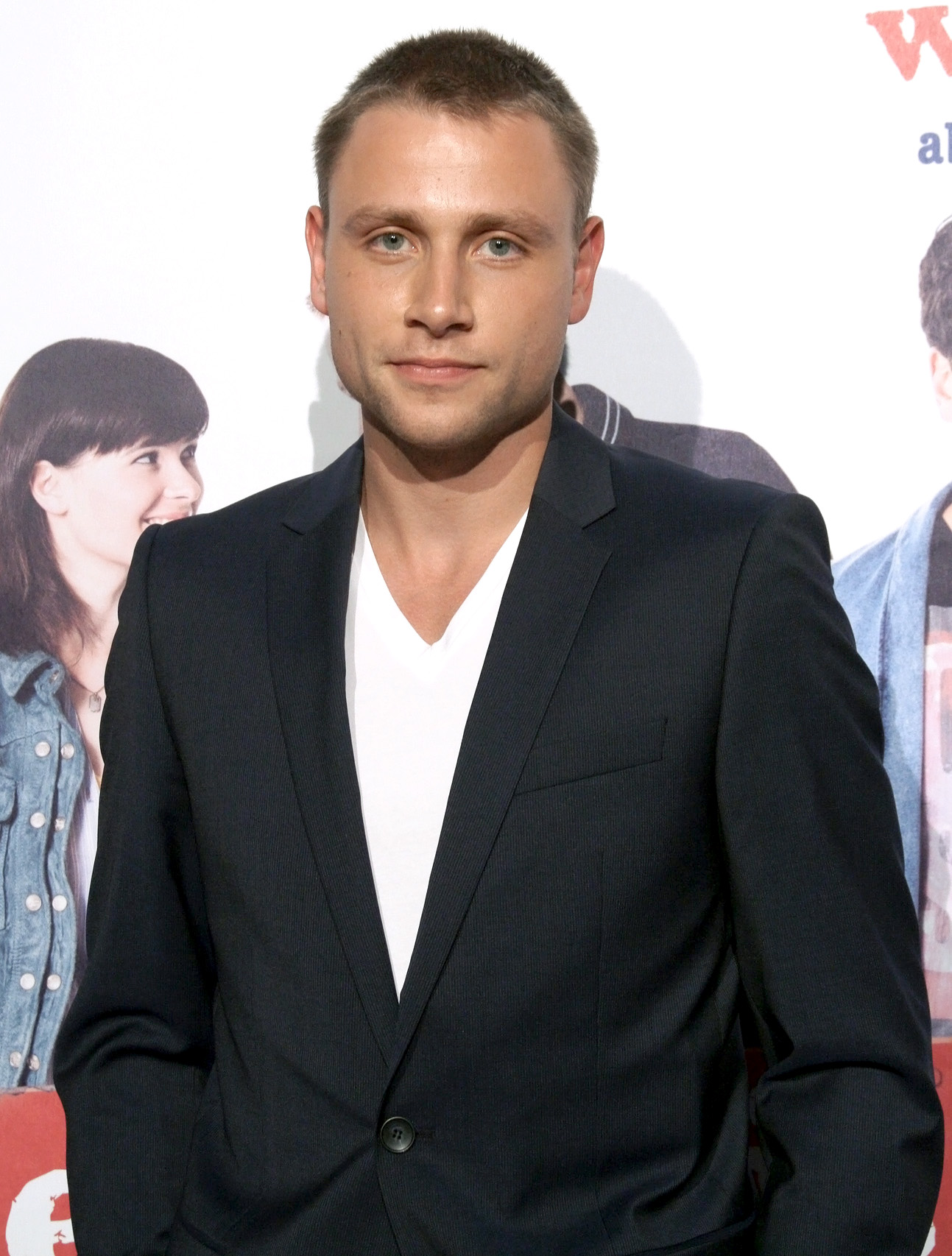 Max Riemelt at the Austrian premiere of Heiter bis wolkig at Urania cinema in Vienna, Austria.